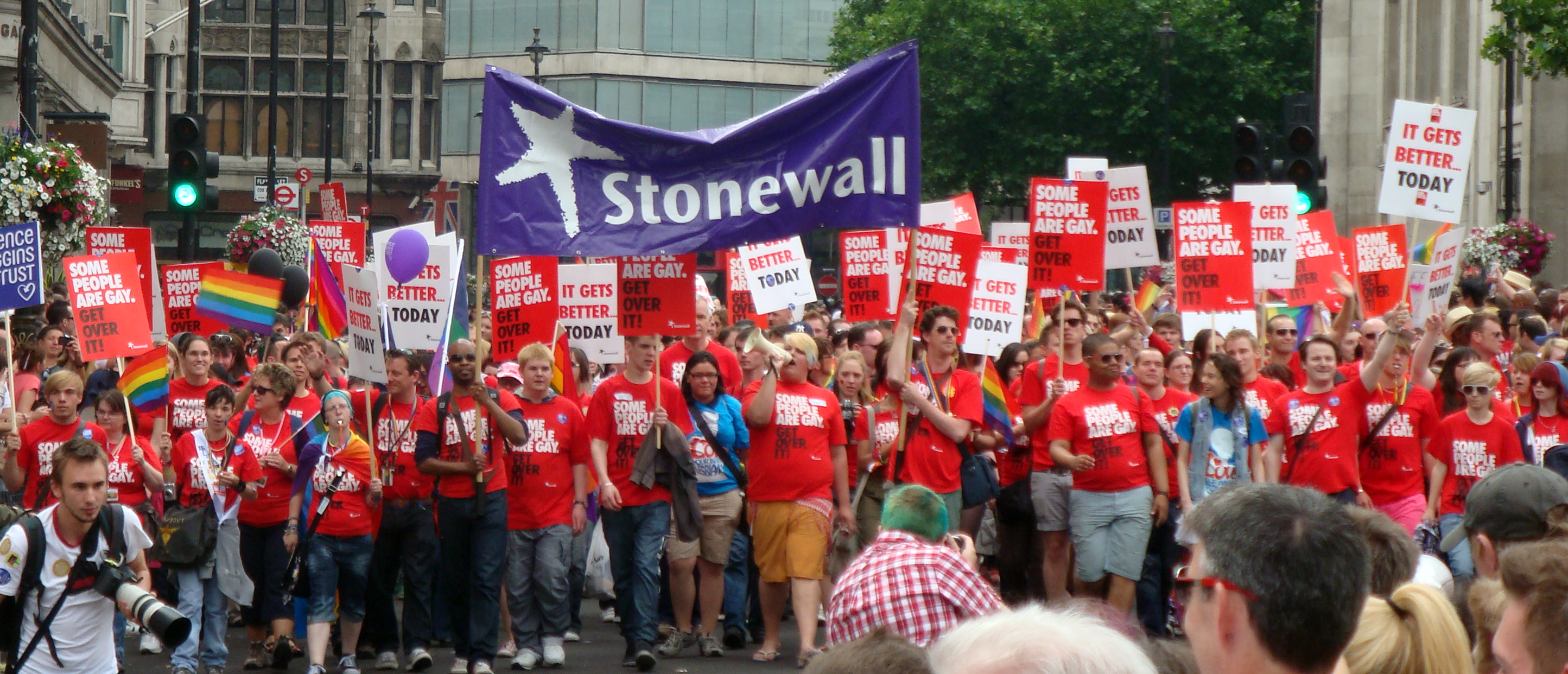 Stonewall UK group marching at the gay London Pride event 2011.